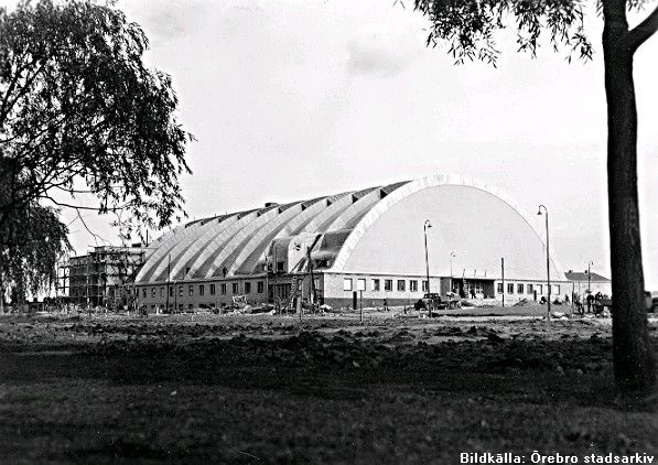 The old sport palace in Örebro, Sweden